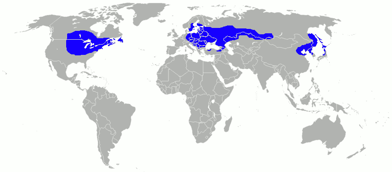 Map of the "humid continental climate", based on Strongbad1982's creation Humidcontinentalworldwiderev.PNG, modified to include parts of Croatia, Bosnia, Serbia, Macedonia, Turkey and Armenia which were forgotten in the original creation, but are included the Köppen-Geiger Map of the University of Melbourne. Based on winter temperature of 0 °C, not -3 °C.